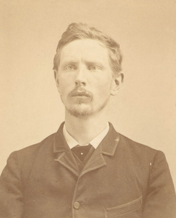 Adolph Fischer, one of the defendants who was charged with murder in the Haymarket Anarchists Trial, 1886.